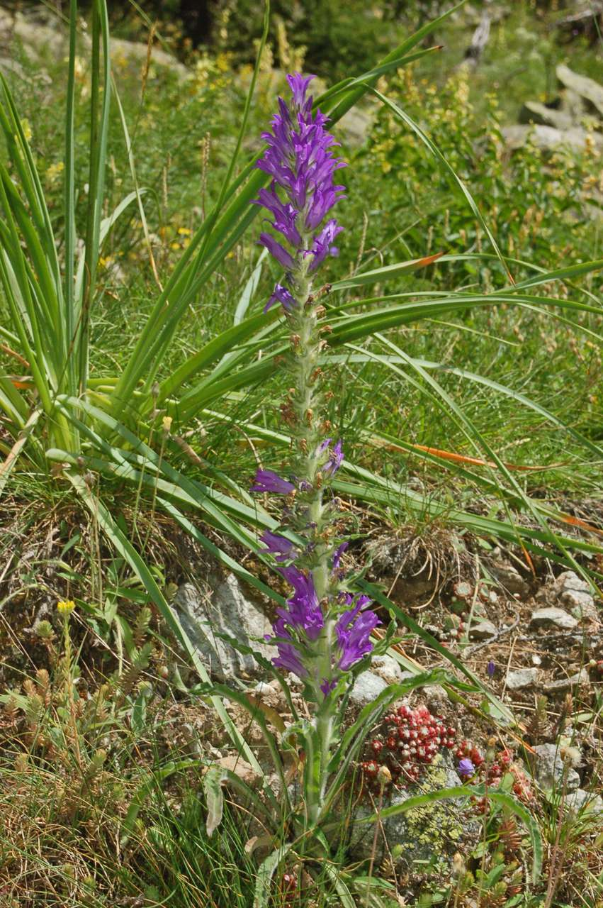 Campanula spicata - Parqie des Ecrins, France